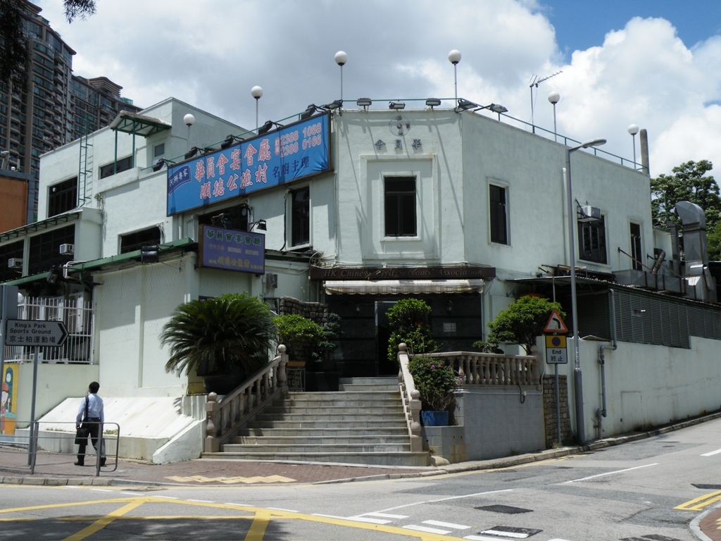 Hong Kong Chinese Civil Servant's Association